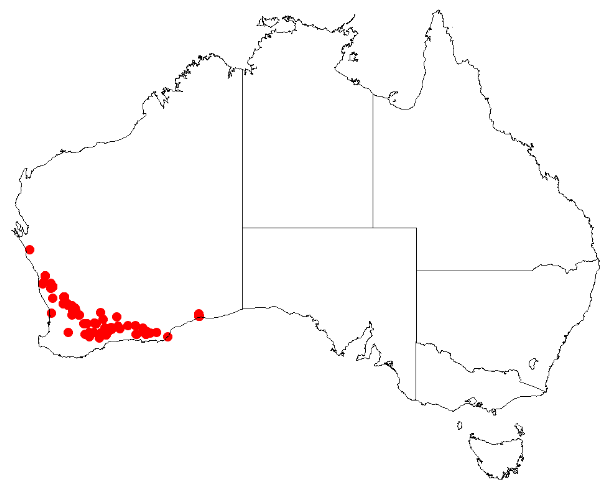 Desmocladus myriocladus Occurrence data downloaded from Australasian Virtual Herbarium on 24 January 2019 using